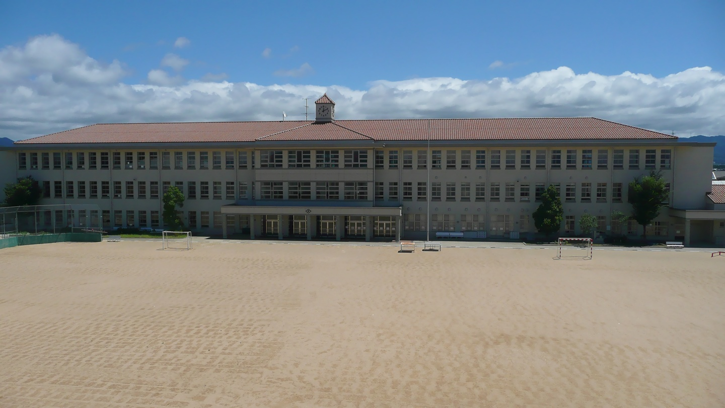 Toyosato Elementary School (2009)